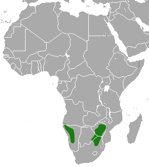 Jameson's Red Rock Hare (Pronolagus randensis) range